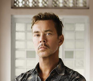 A portrait of German journalist Martin Schacht